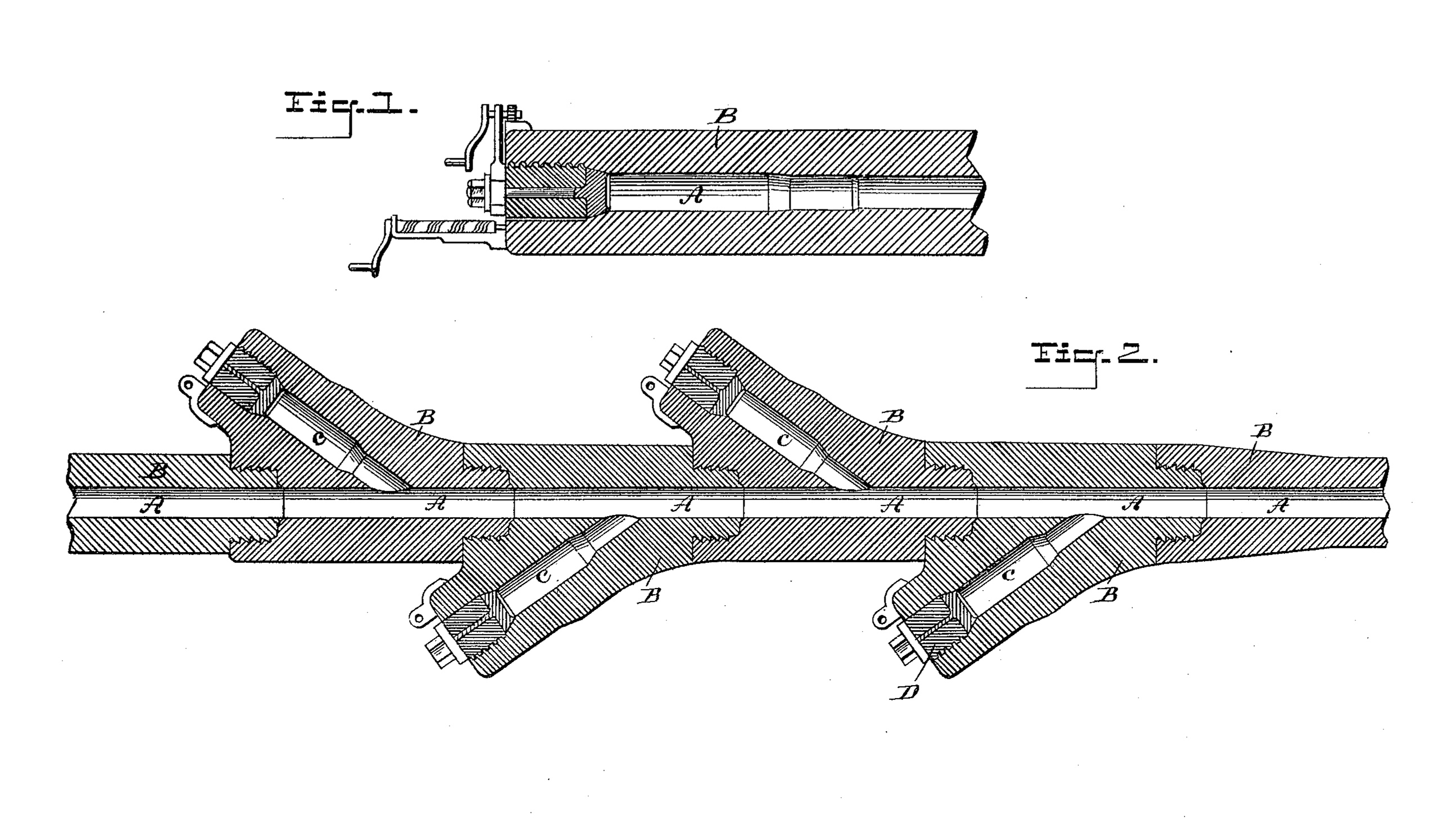 Drawing of the U.S. patent specification 484 011 from 11 October 1892. Cannon working on the multi-charge principle of the american inventor James Richard Haskell.